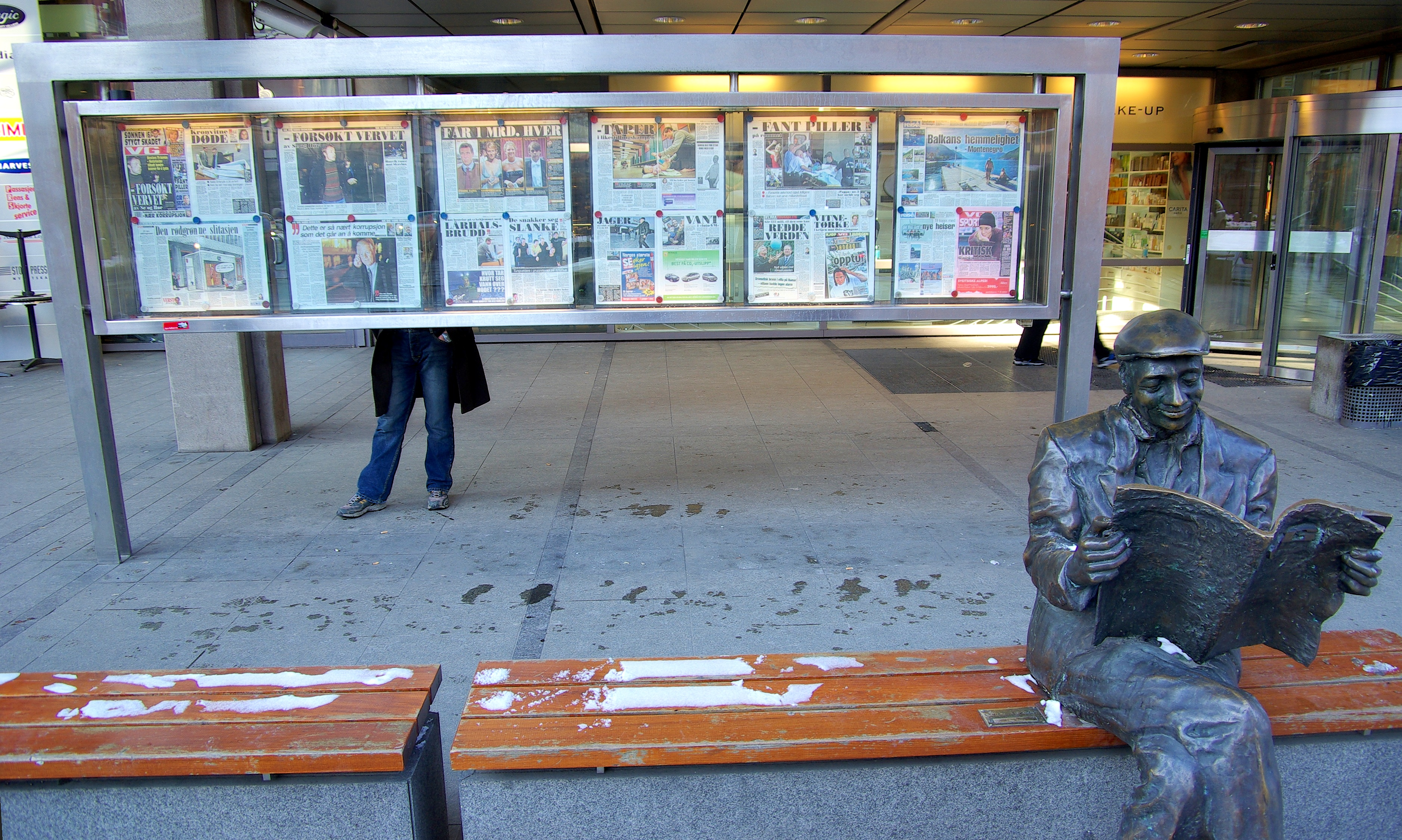 The "VG man", in front of Verdens Gang's headquarter in Akersgata, Oslo, Norway.